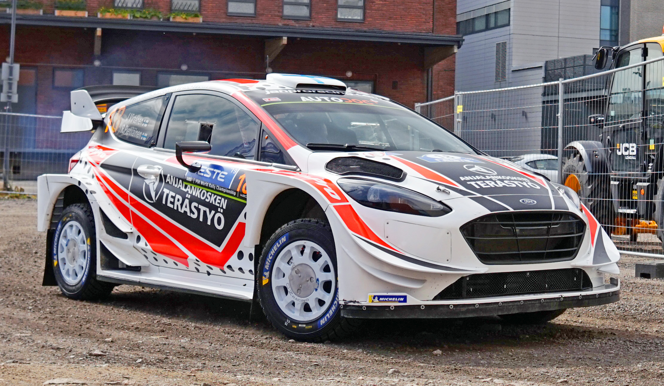 Ford Fiesta WRC (Jouni Virtanen, Risto Pietiläinen) during Neste Rally Finland in 3rd August 2019. Lutakko, Jyväskylä, Finland.